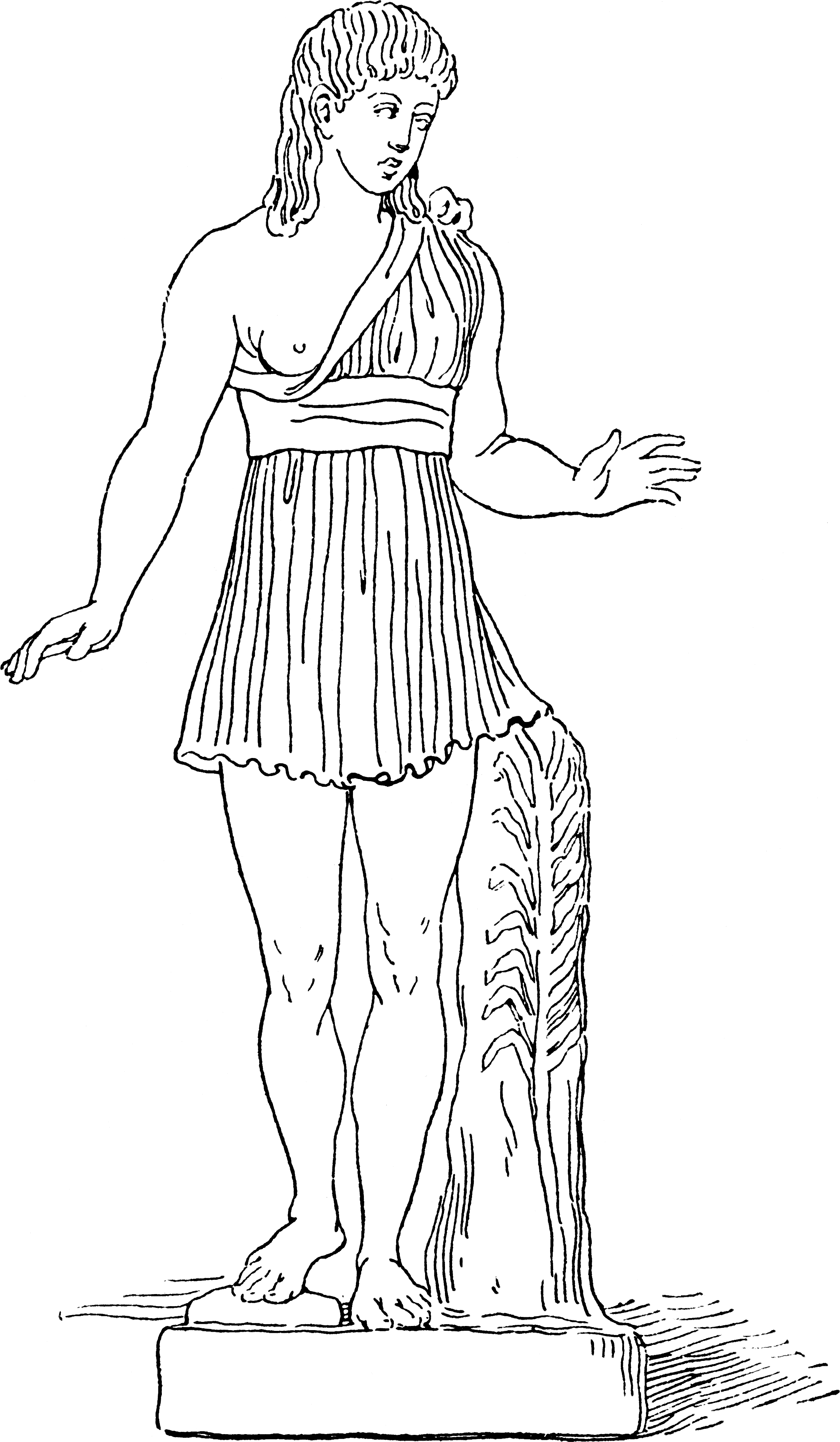 Strophium after an antique statue.